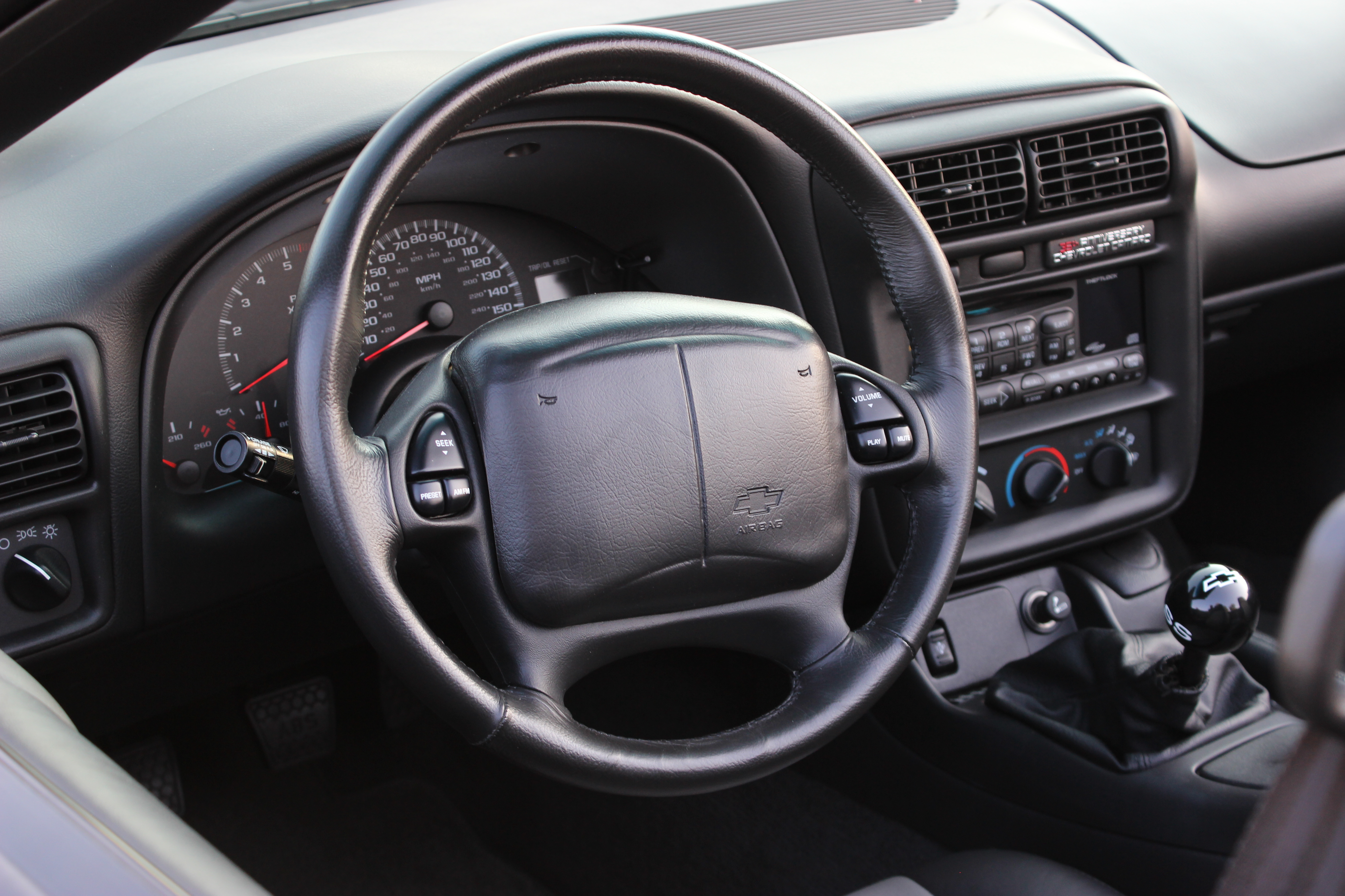 Chevrolet Camaro SS 35th Anniversary Edition Convertible